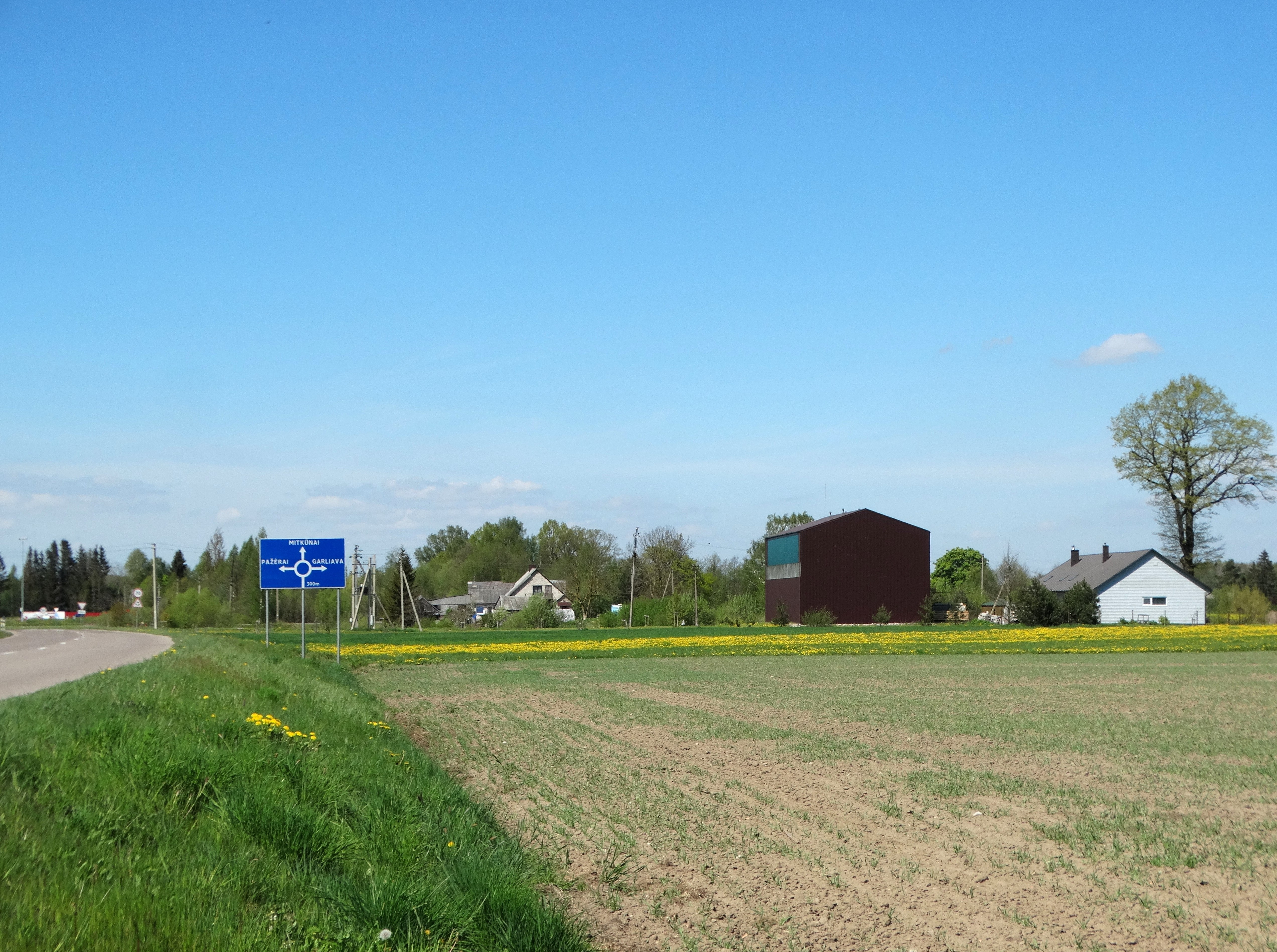 Padainupys, Kaunas district. Lithuania